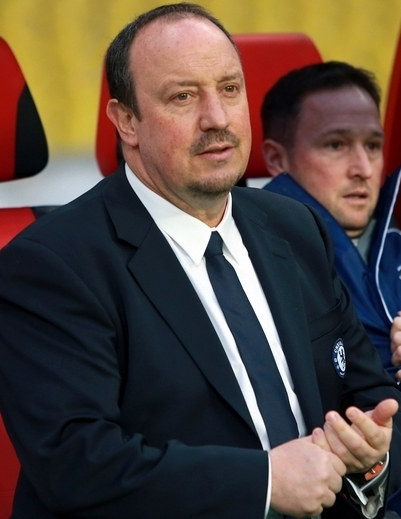 Rafael Benitez in Moscow